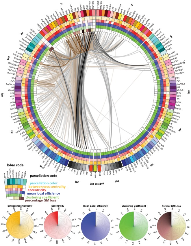 This connectogram shows the white matter and associated cortical measures affected by a tamping iron which was shot through the skull of Phineas Gage in 1848.